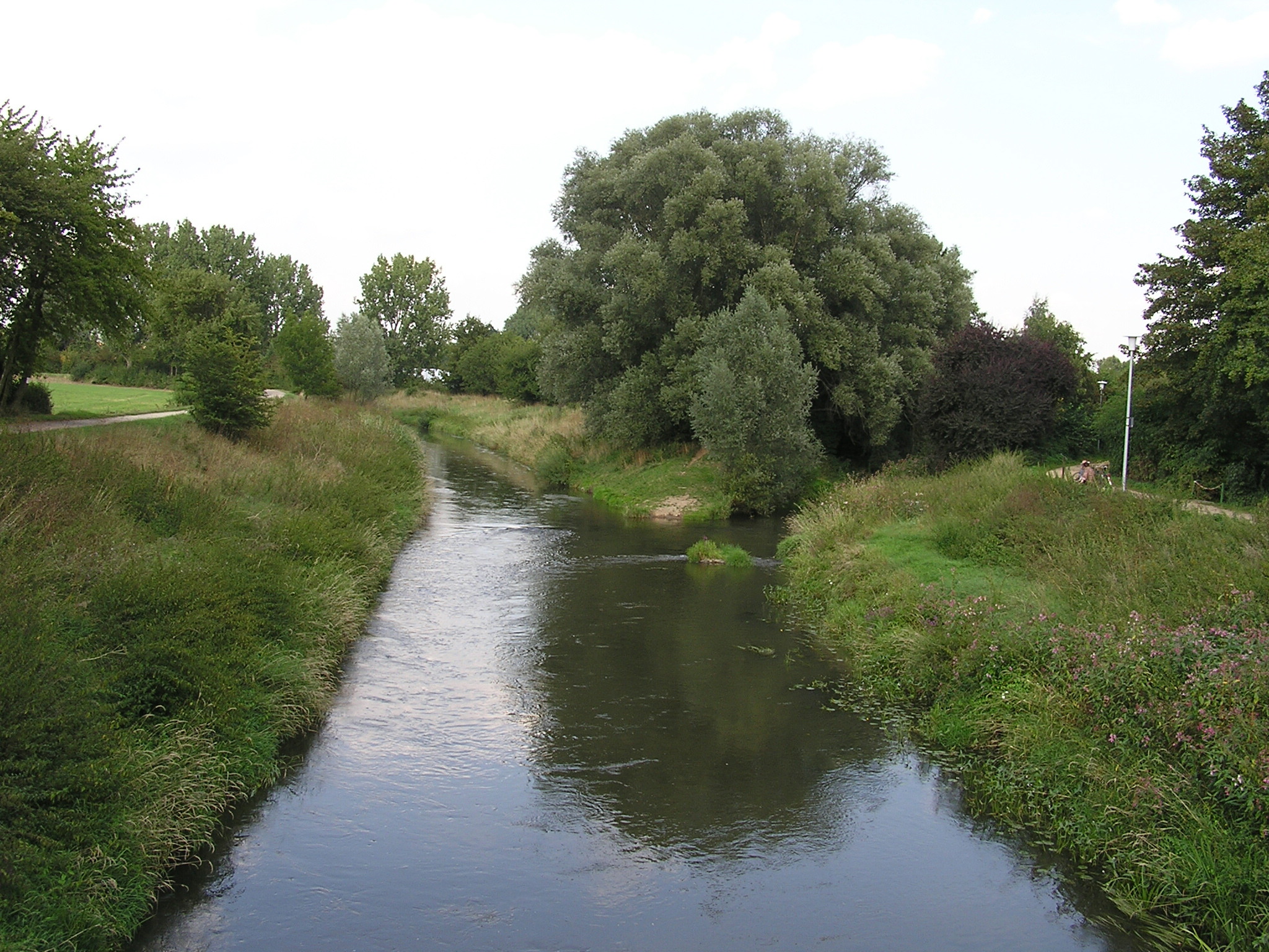 Estuary of the Nidder into the Nidda at Bad Vilbel